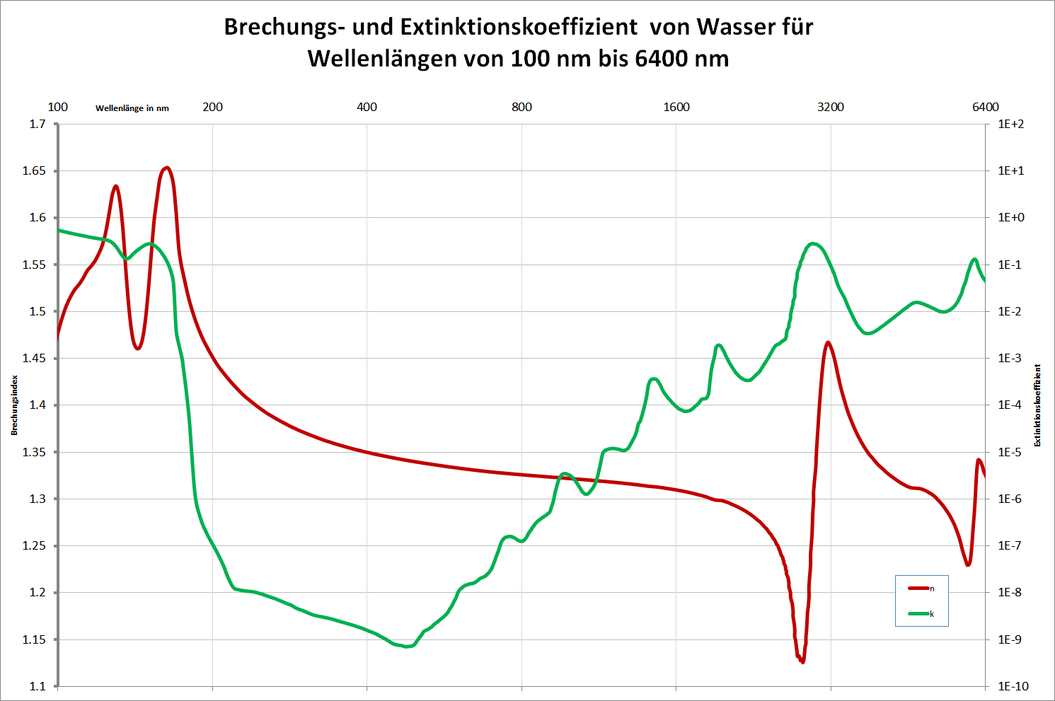 (Complex) Refractive Index of Water between 100 and 6400 nm